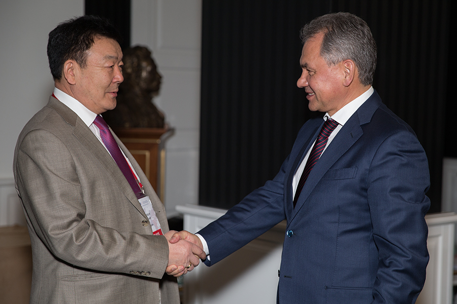 Head of the Military department of Russia invited the Minister of Defence of Mongolia Tserendash Tsolmon to the international forum “Army-2015”